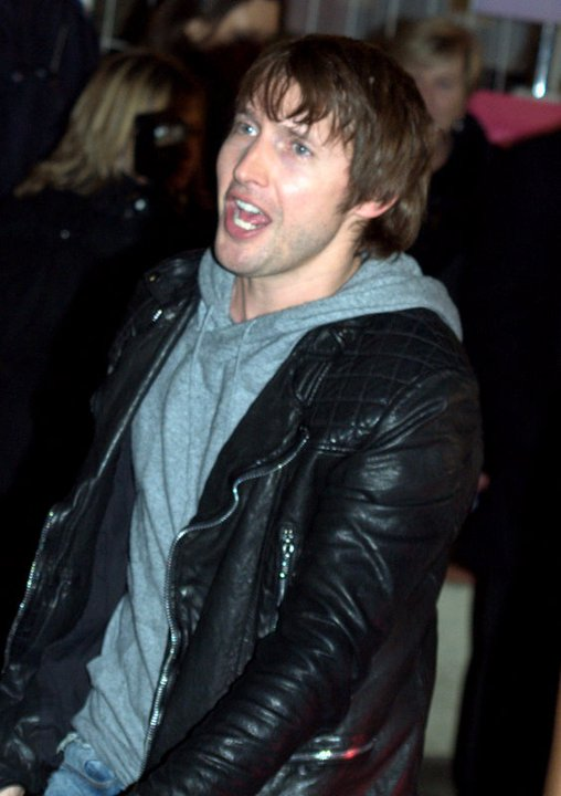 James Blunt in Cannes at the NRJ Music Awards